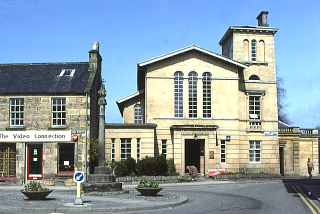 Elgin Museum This Italianate building dates from 1838, and was designed to house the museum, which is still independent. The exhibits include the Elgin reptiles, Permo-Triassic fossils from the New Red Sandstone, which attract specialist visitors from all over the world. Just to the left (not easy to see) is the Little Cross, which was the market cross for the part of the town which was under the jurisdiction of the Cathedral. The video shop is now a coffee shop.